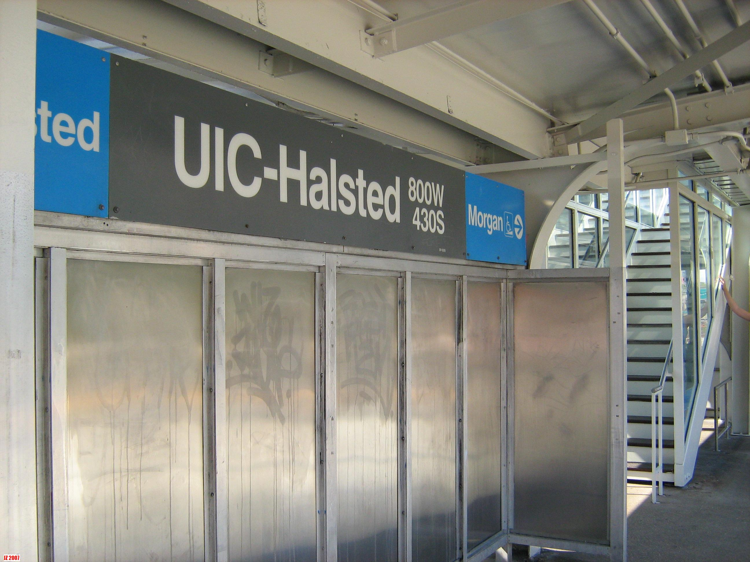 Halsted Street and the Eisenhower Expressway (800W/430S) 430 S. Halsted St. Chicago, IL 60607 Blue Line (Congress Branch)